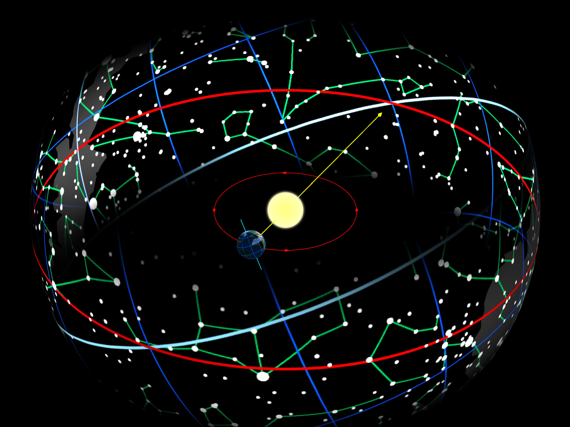 While in reality the Earth goes in an orbit around the Sun, it seems from the Earth that the Sun moves over the ecliptic (red) on the celestial dome. When the Sun seems to pass through the vernal equinox (longitude 0°), the longitude of the Earth itself is 180° longitude.